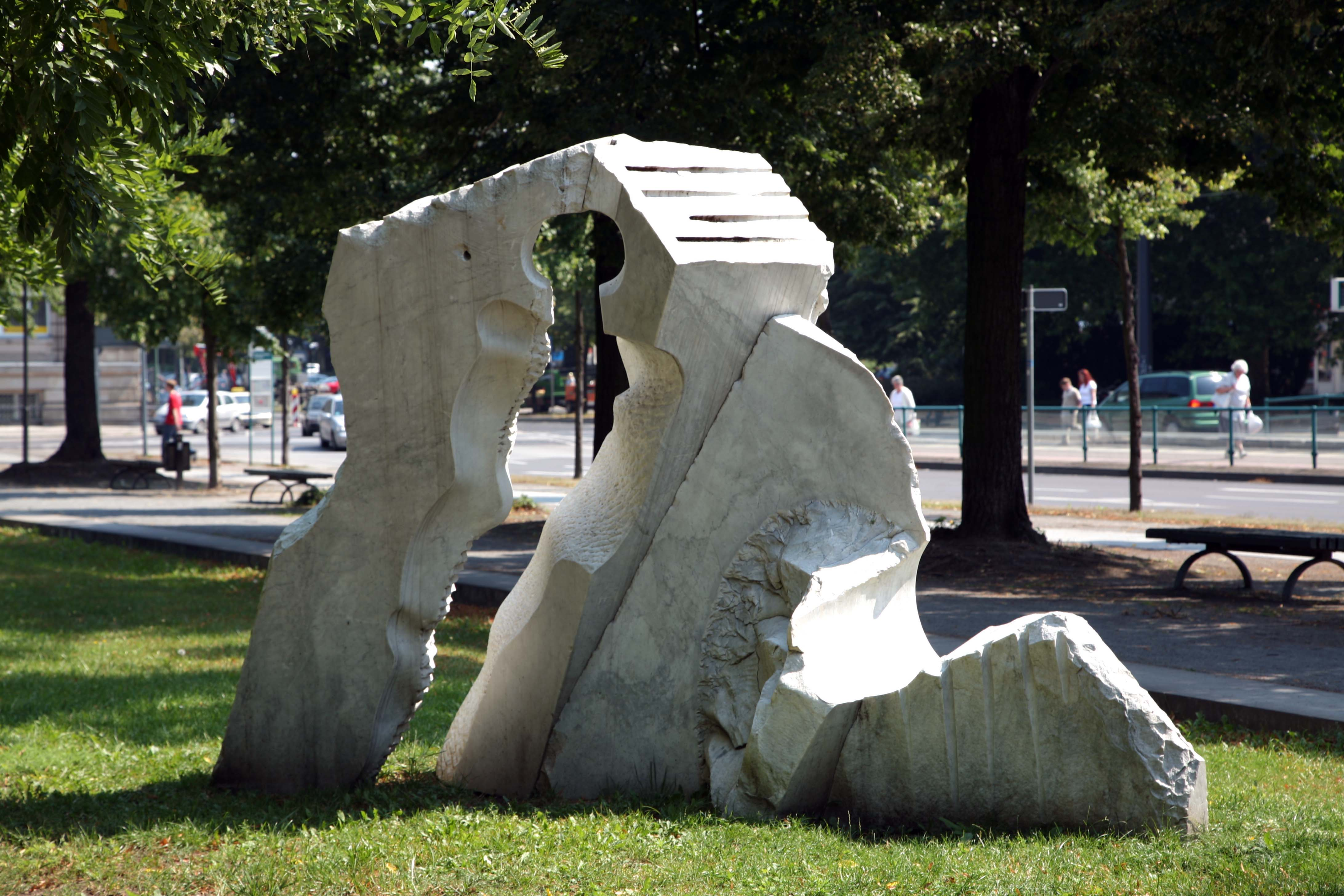 Sculpture "Denkmal für die unbekannten Deserteure" by Mehmet Aksoy, 1989, in Potsdam, Germany.